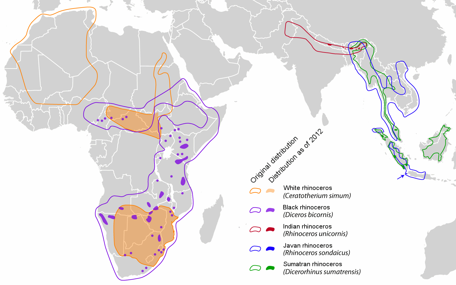 A Rhinocerotidae distribution map, translated into English.